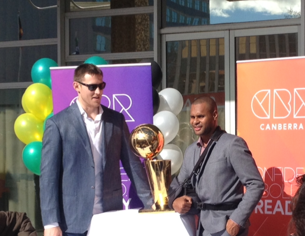 Aron Baynes and Patty Mills in front of the ACT Legislative Assembly in July 2014, with the NBA championship trophy.